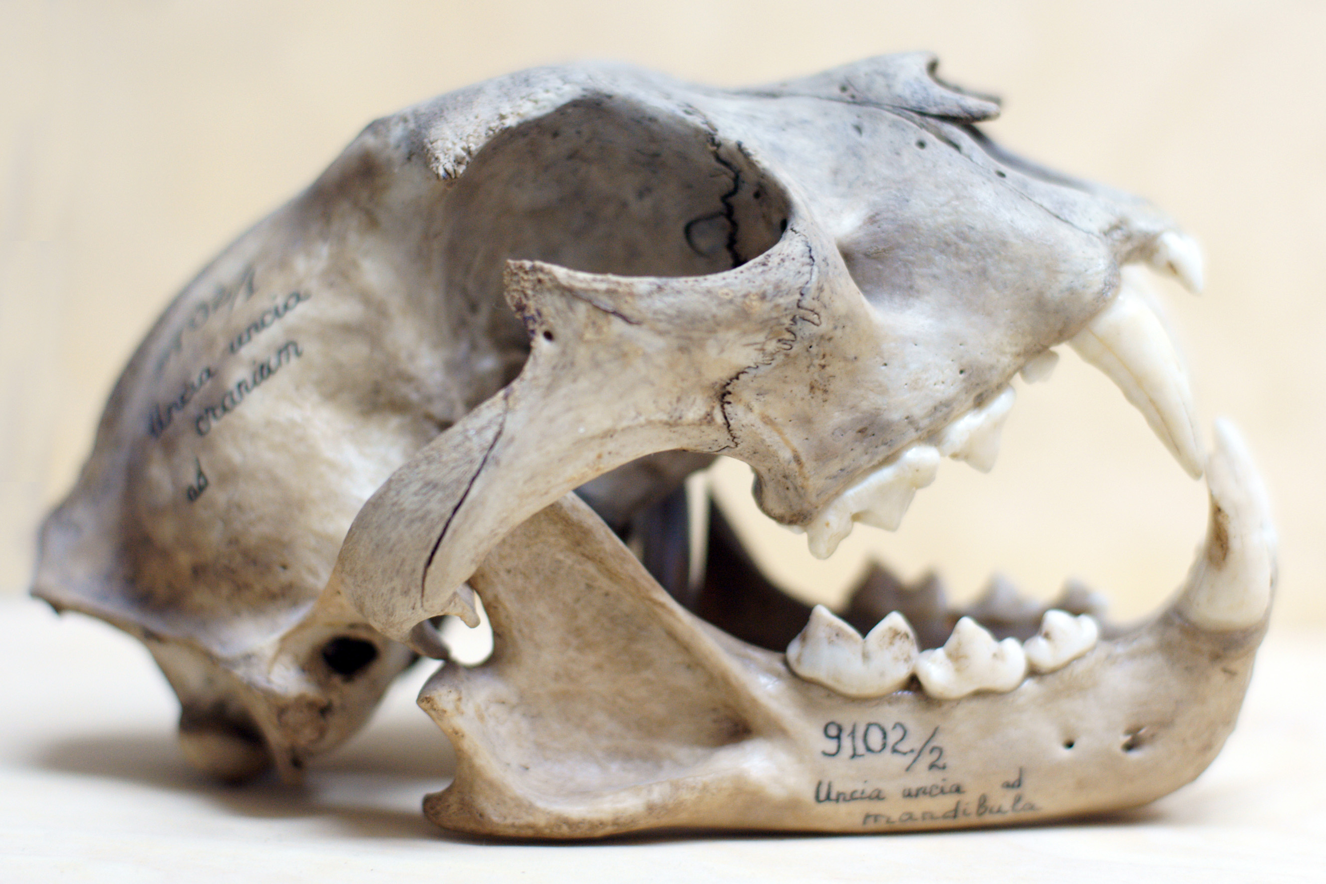 snow leopard skull